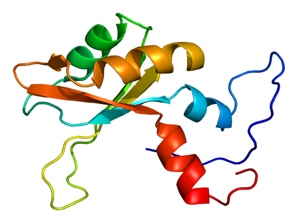 Structure of the RBM39 protein. Based on PyMOL rendering of PDB 2cq4.